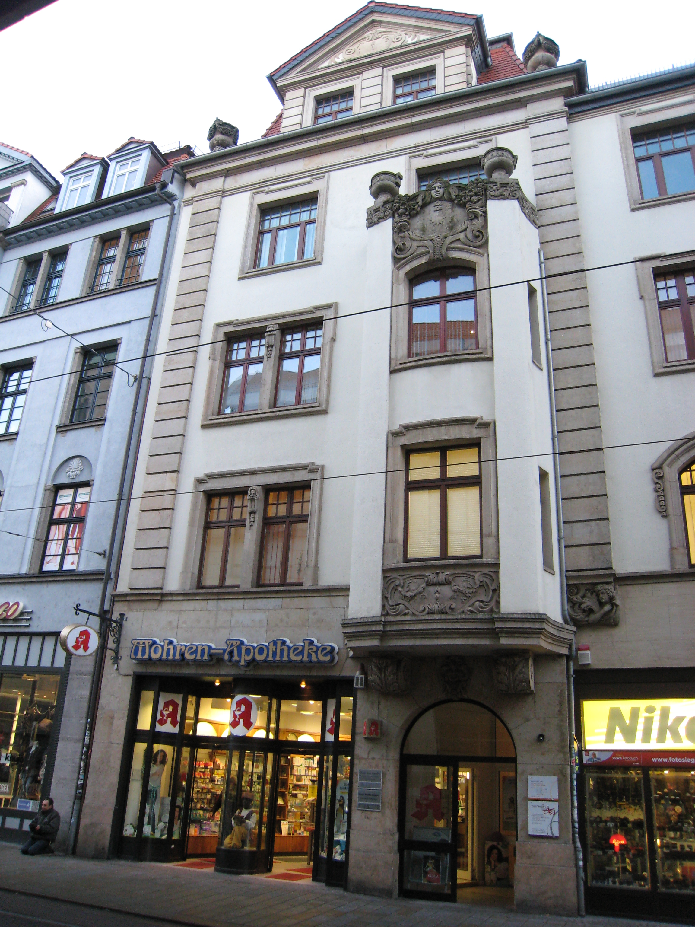 Mohren pharmacy Erfurt Schlösserstraße 9